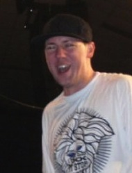 Australian rapper Suffa from the Hilltop Hoods performing at Festival Hall in 2009